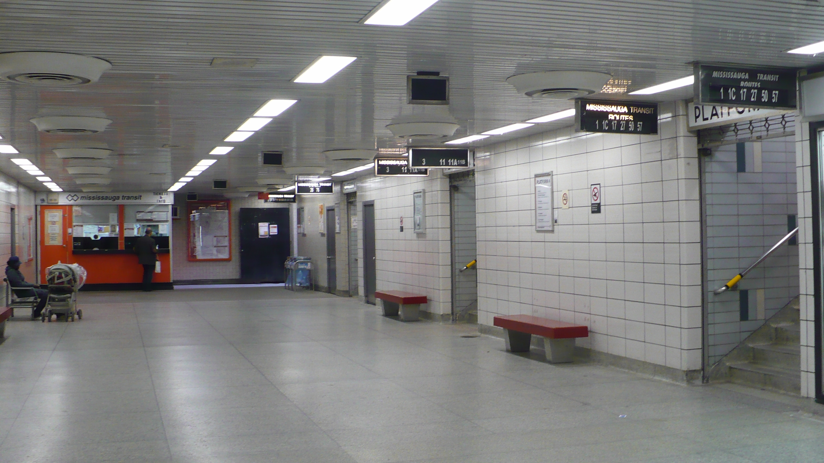 Mississauga Transit platforms at Islington Subway Staion of the TTC